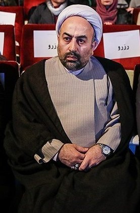 Mohammad Reza Zaeri in Closing Ceremony of ninth Jalal Al-e Ahmad Literary Award